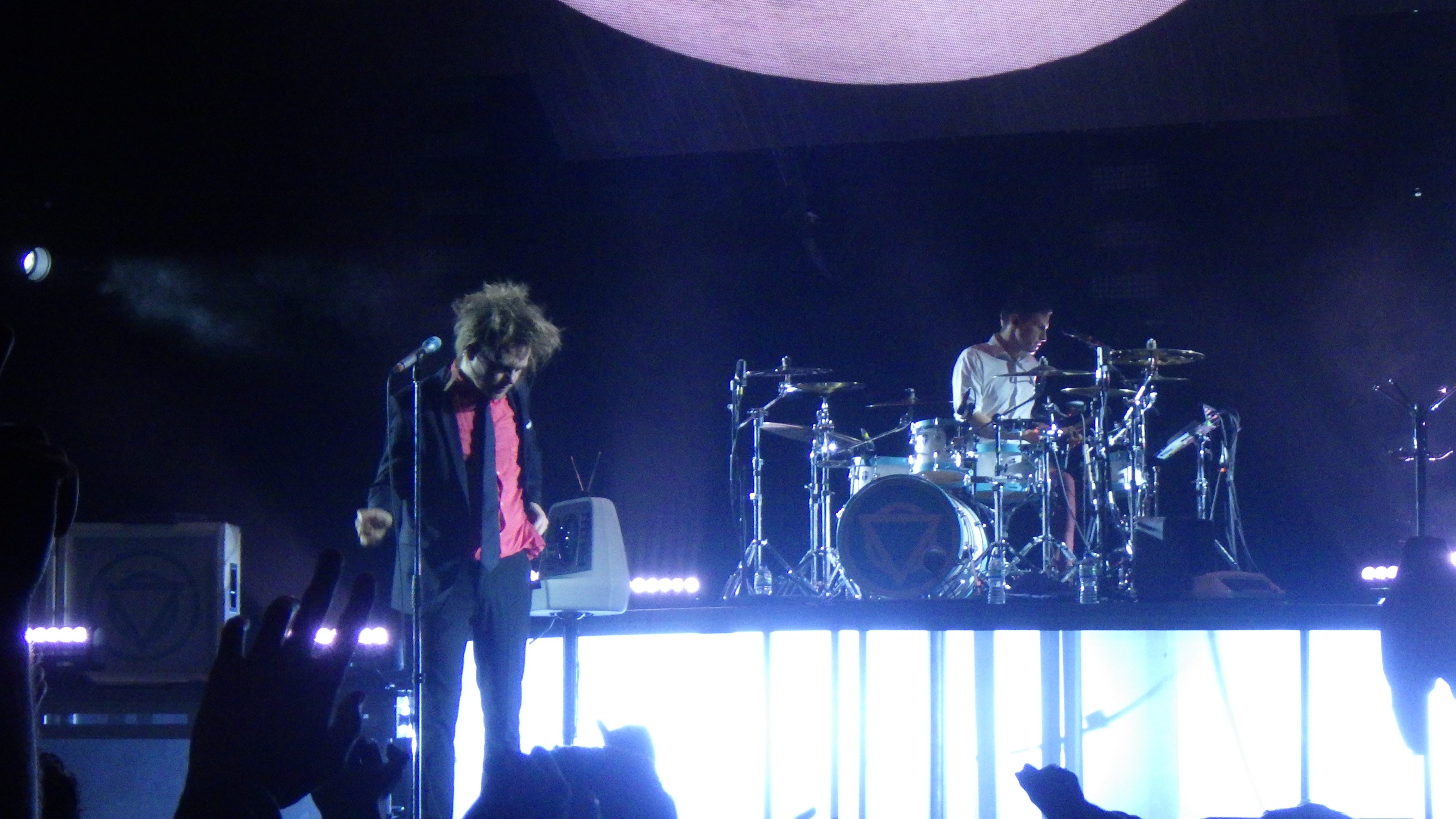 British band Enter Shikari live at Brighton, 11/22/17